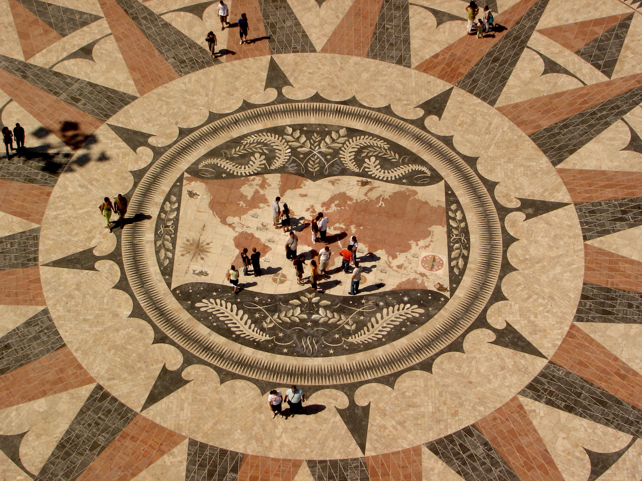 Wind rose on the pavement in front of the monument to the discoveries, Lisbon, Portugal. This artwork was a gift given by the Republic of South Africa and had the architect Cristino da Silva as its designer.